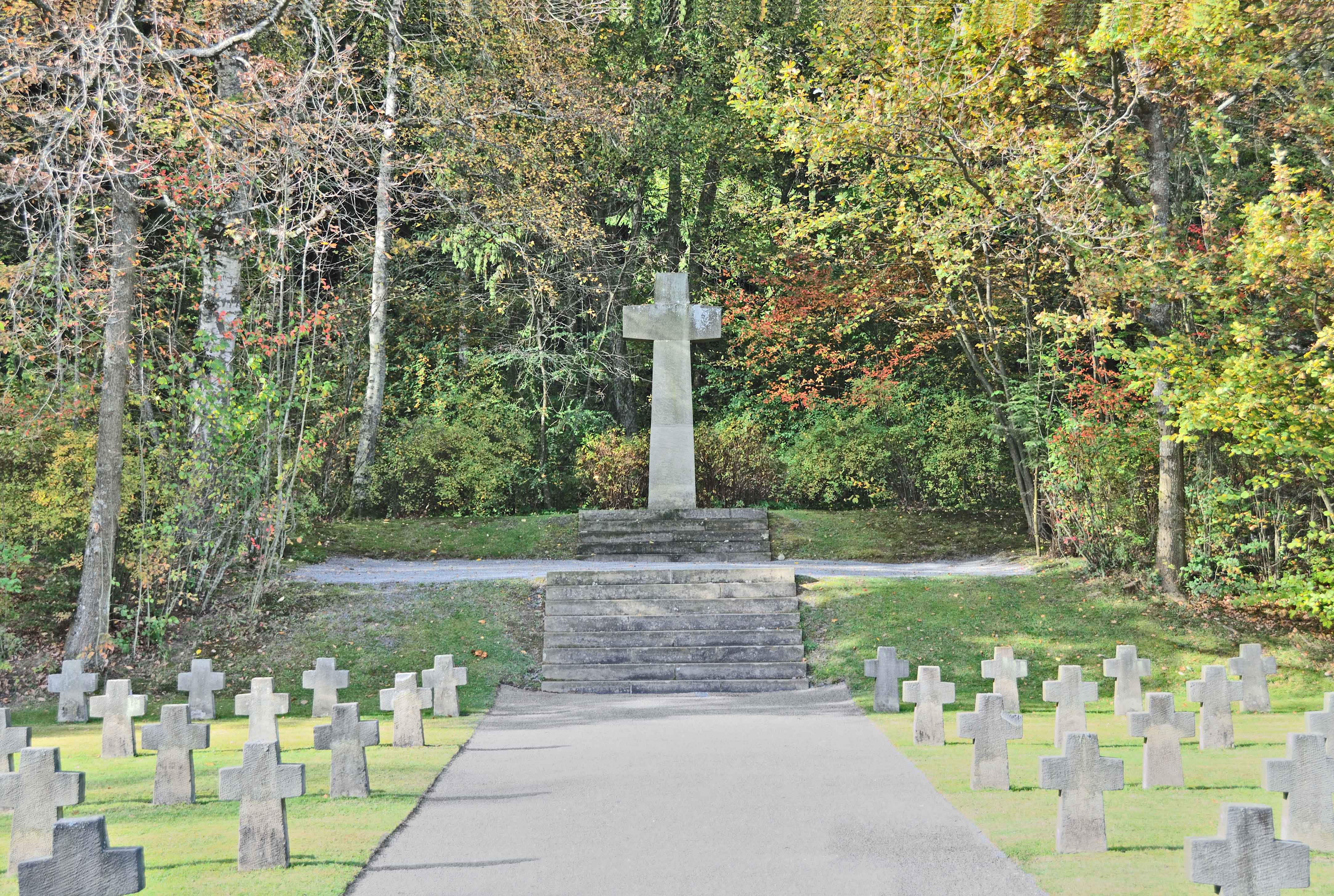 Hinzert, Germany, Rhineland-Palatinate, Hunsrück: memorial at the site of the Second World War concentration camp